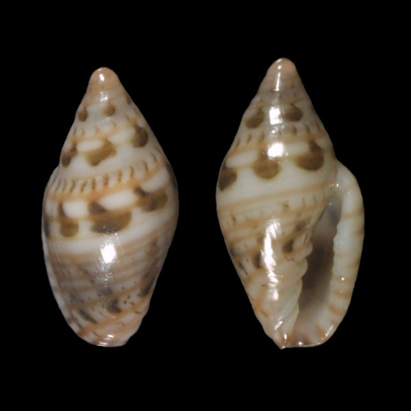 Species: Marginella undulans Gofas & Fernandes, 1994 Specimen: Luis Ferreira collection data: Saco Mar, Namibe. Angola by scuba at 3-5m L 6.4mm